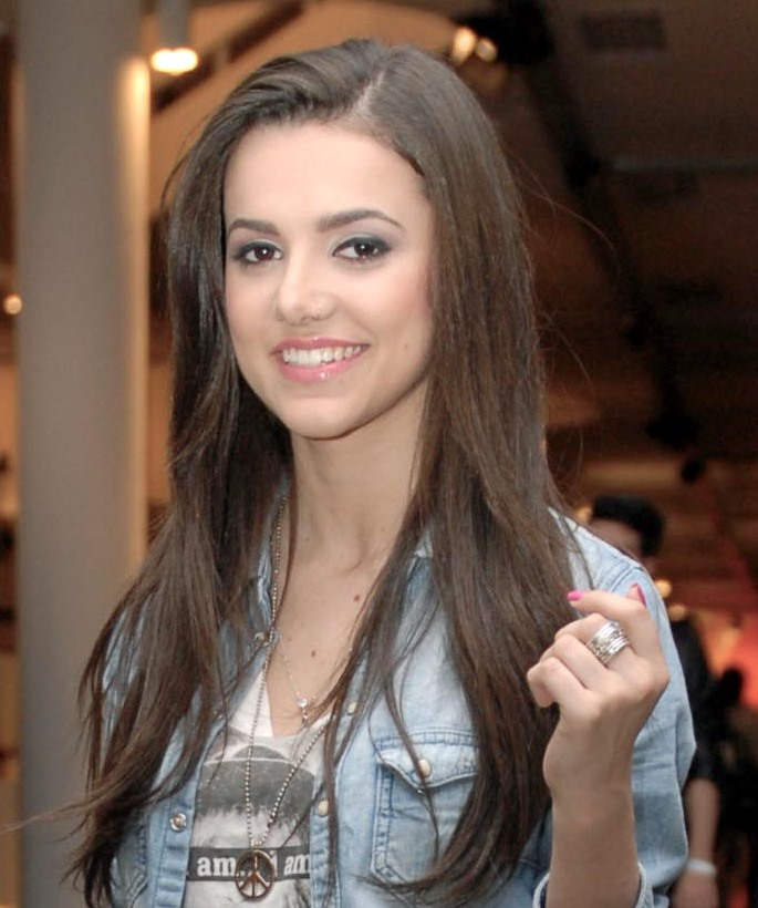 The Brazlian singer, Manu Gavassi at São Paulo Fashio Week.